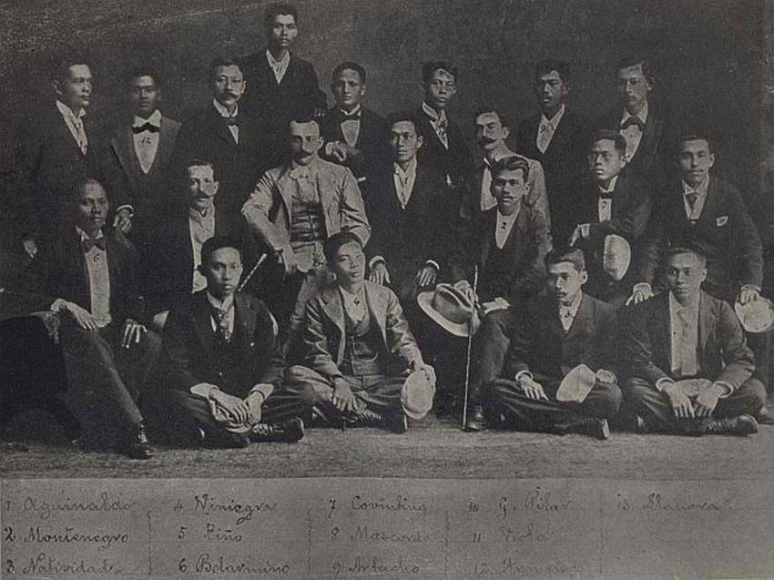 Emilio Aguinaldo, Mariano Llanera, Tomas Aguinaldo, Vito Belarmino, Antonio Montenegro, Escolastico Viola, Lino Viola, Valentin Diaz, Dr. Anastacio Francisco, Benito Natividad, Gregorio H. del Pilar, Manuel Tinio, Salvador Estrella, Maximo Kabigting, Wenceslao Viniegra, Doroteo Lopez, Vicente Lukban, Primitivo Artacho, Tomas Mascardo, Joaquin Alejandrino, Pedro Aguinaldo, Agapito Bonson, Carlos Ronquillo, Teodoro Legazpi, Agustin de la Rosa, Miguel Valenzuela, Antonio Carlos, Celestino Aragon, Jose Aragon, Pedro Francisco, Lazaro Makapagal y Lakang-dula, Silvestre Legazpi, Vitaliano Famular, Vicenter Kagton, Francisco Frani and Eugenio de la Cruz